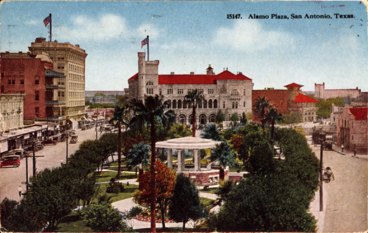 Alamo Plaza, San Antonio, Texas as depicted on a 1917 postcard.